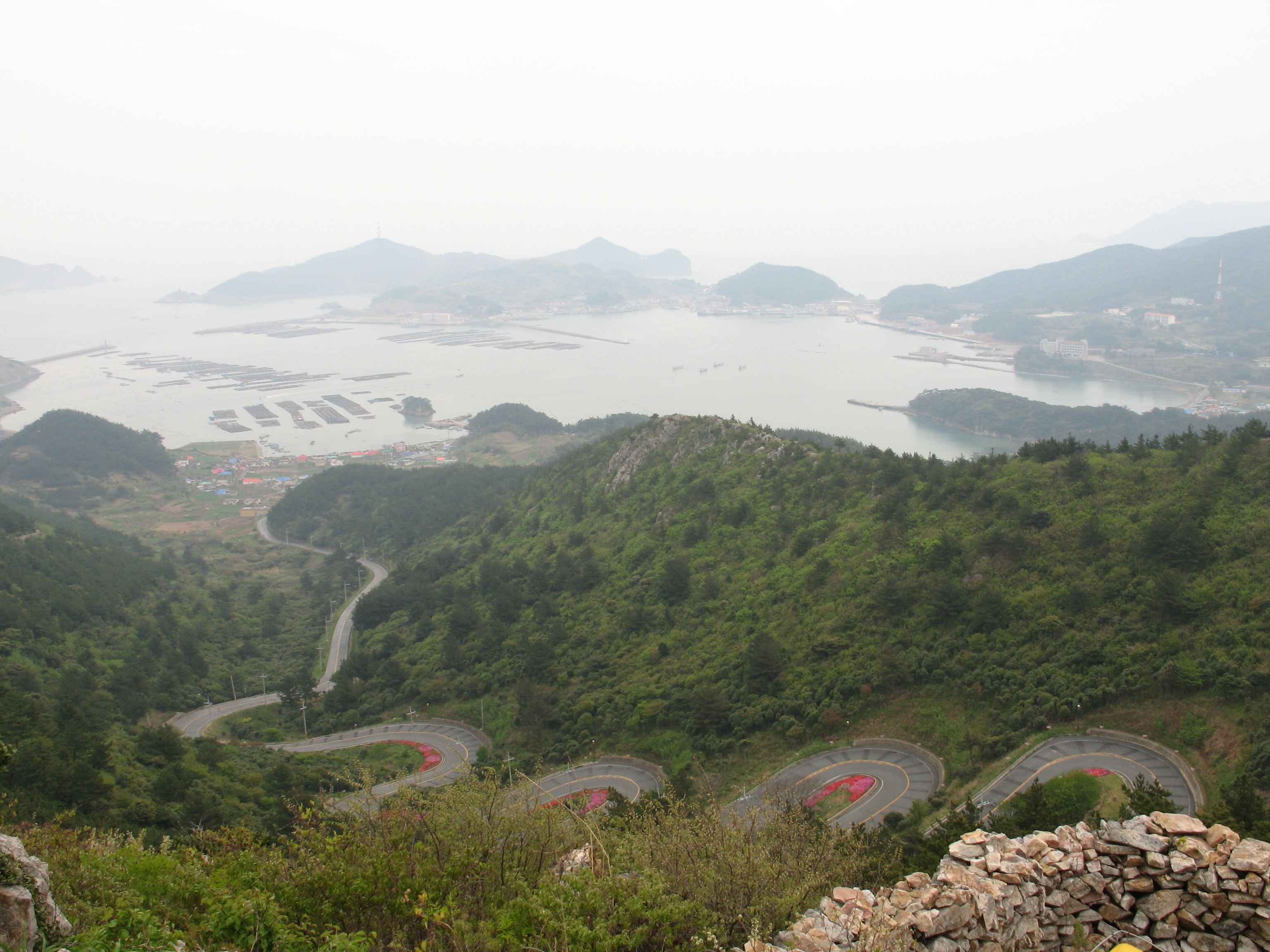 Heuksando Island, South Korea